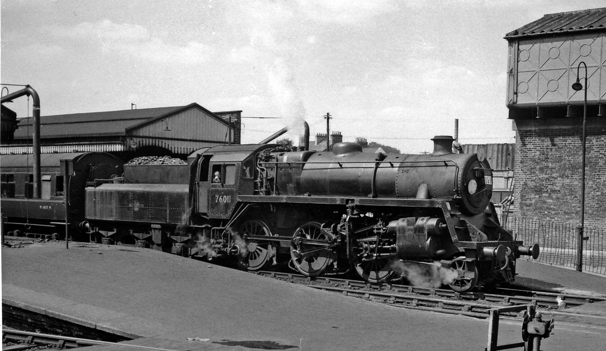 BR Standard 4MT 2-6-0 at Salisbury. View northward at the east end of the station: ex-LSW main line to Exeter to left, London etc. to right, also ex-GWR to Westbury etc. to left. No. 76011 (built 3/53, withdrawn 7/67) is taking on from a GW engine the dated Summer Saturdays 09.35 Swansea - Brockenhurst, which ran over the long-since closed line through Wimborne to Broadstone, then Poole and Bournemouth.